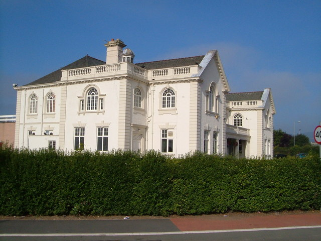 Llay Miners Welfare Institute. This magnificent building was, on completion in 1931, the largest institute in the country built with mining funds. It now offers facilities for conferences, meetings and sports.